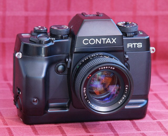 Contax RTS III with Carl Zeiss Planar 1.4/50mm